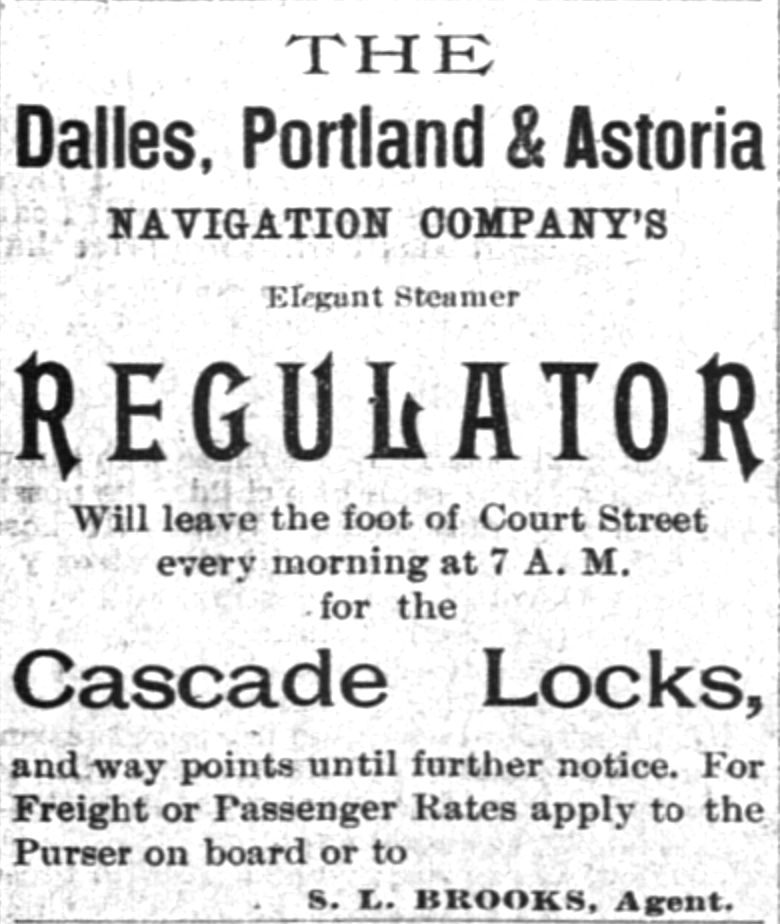 Advertisement for the then newly-built sternwheeler Regulator.